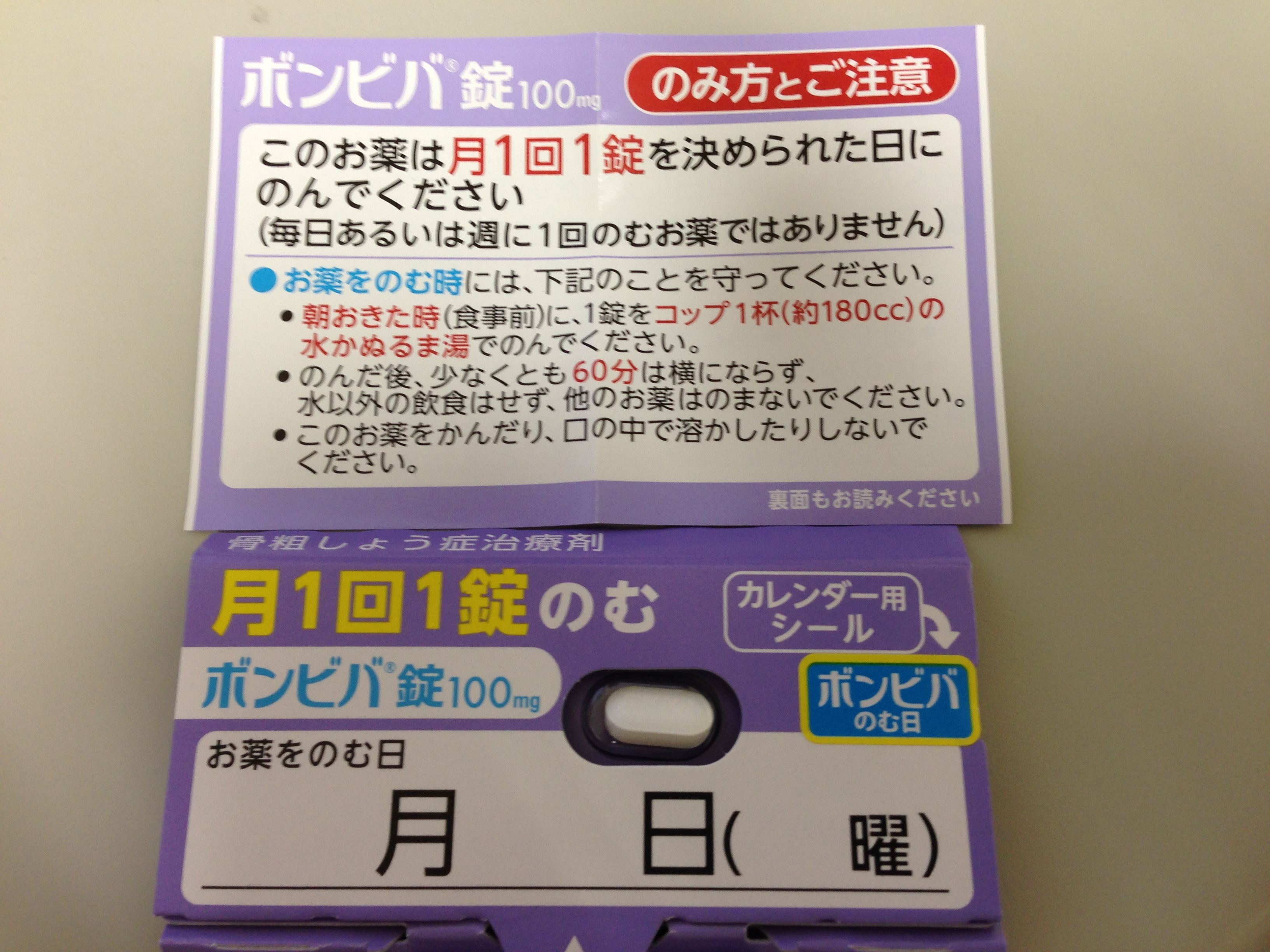 Ibandronic acid / bisphosphonate (JAPAN）